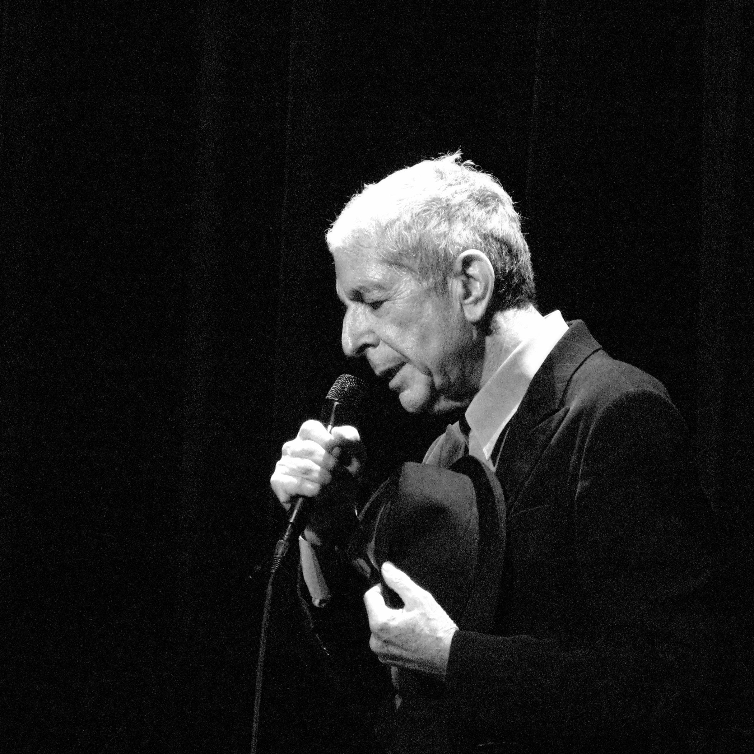 Leonard Cohen